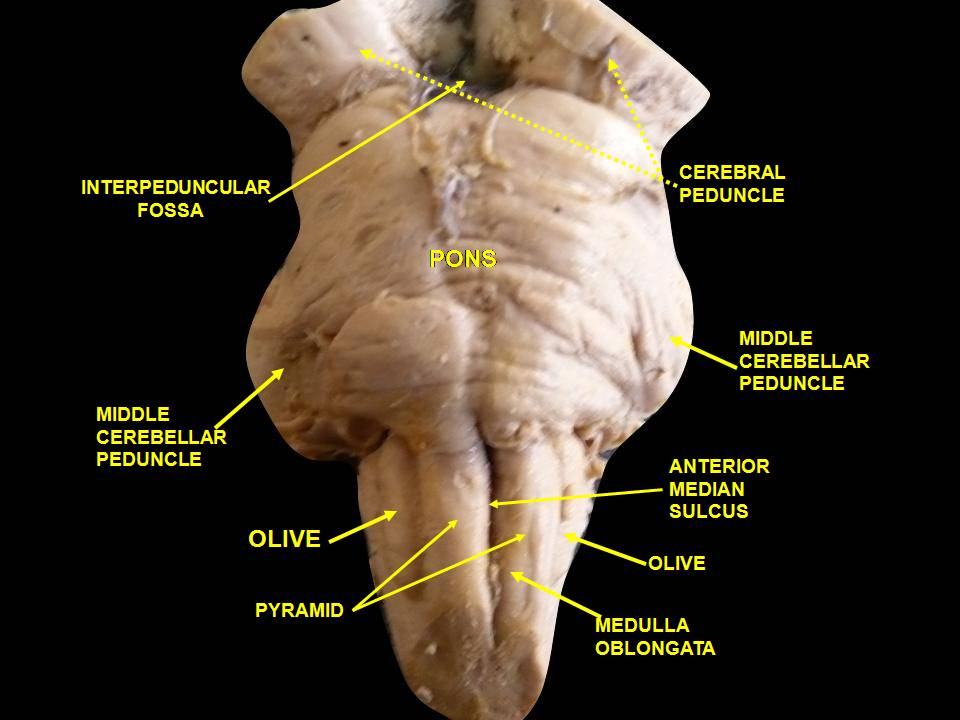 Anatomical dissections